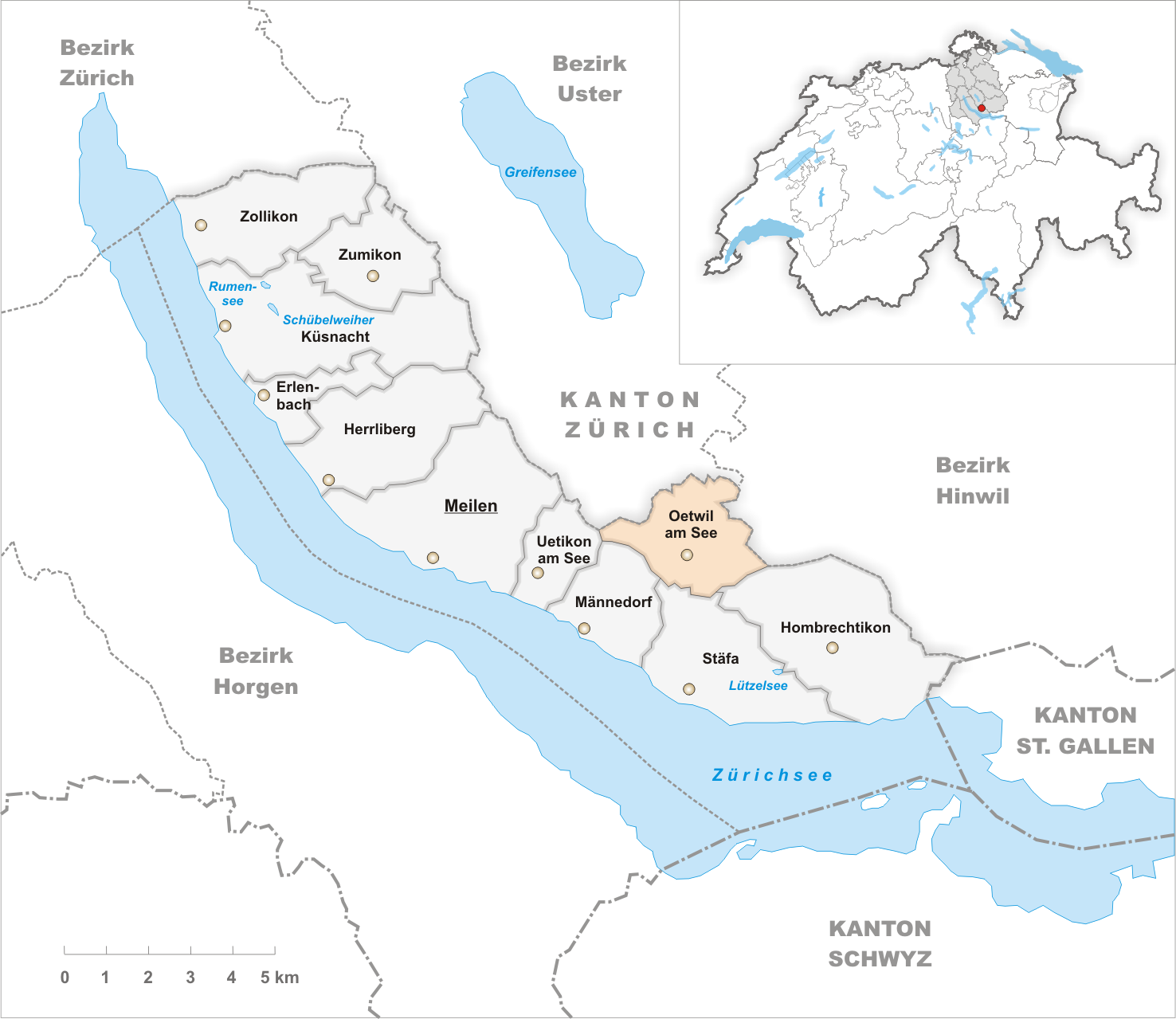 Municipality Oetwil am See